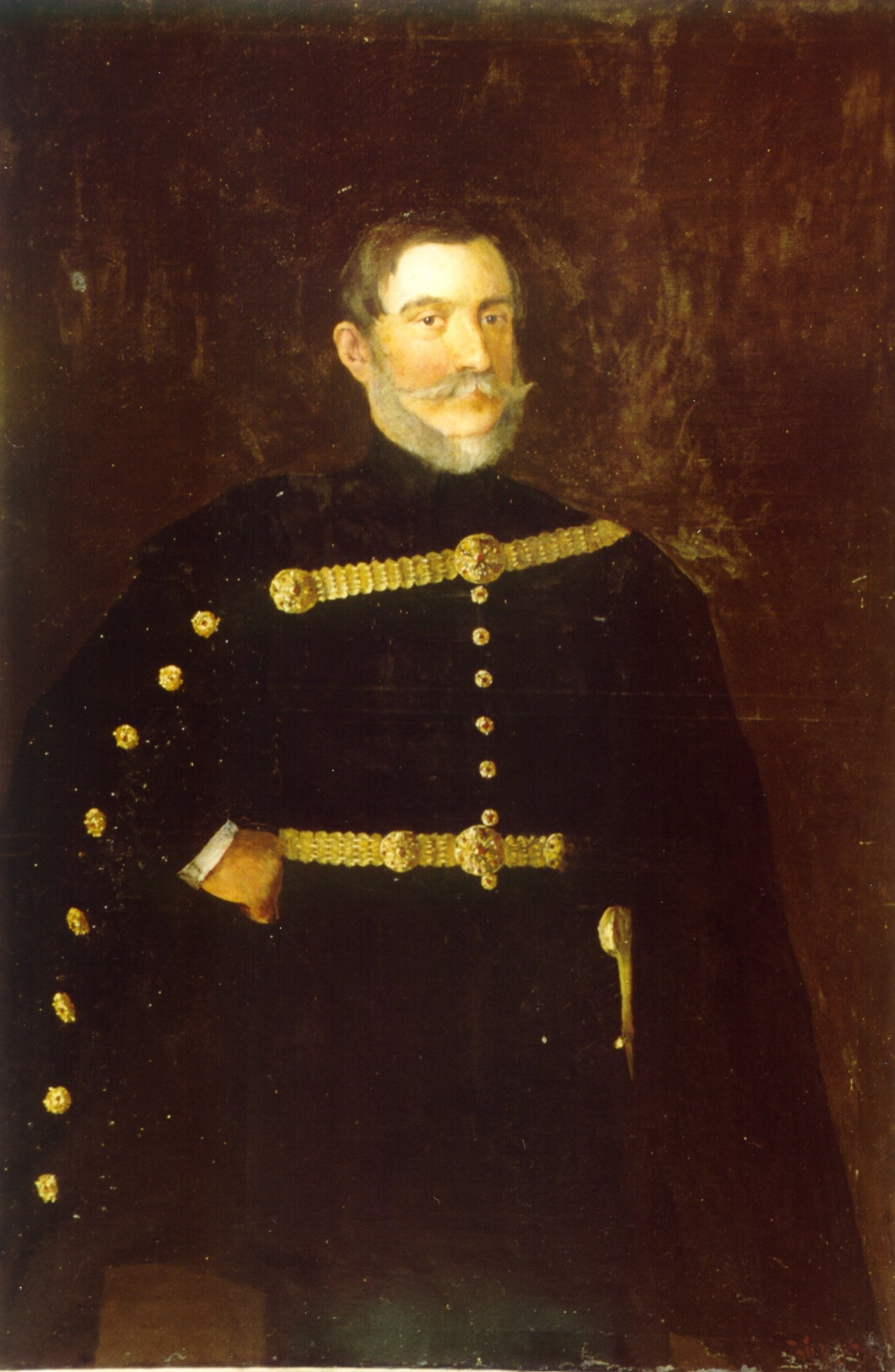 Full portrait of Klauzál Gábor (1804–1866) minister